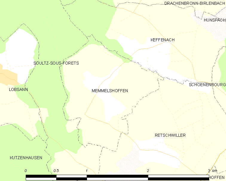 Map of French municipality